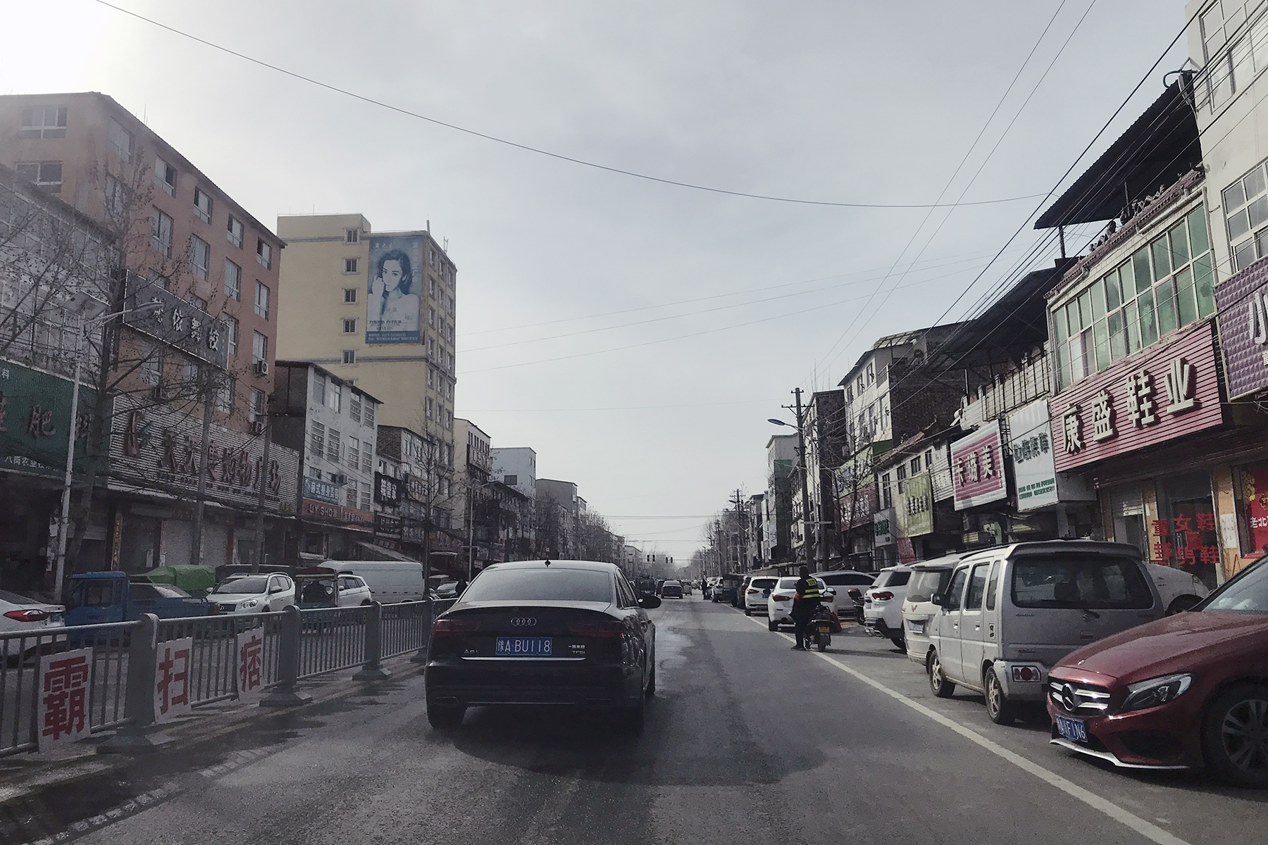 Bagang Town